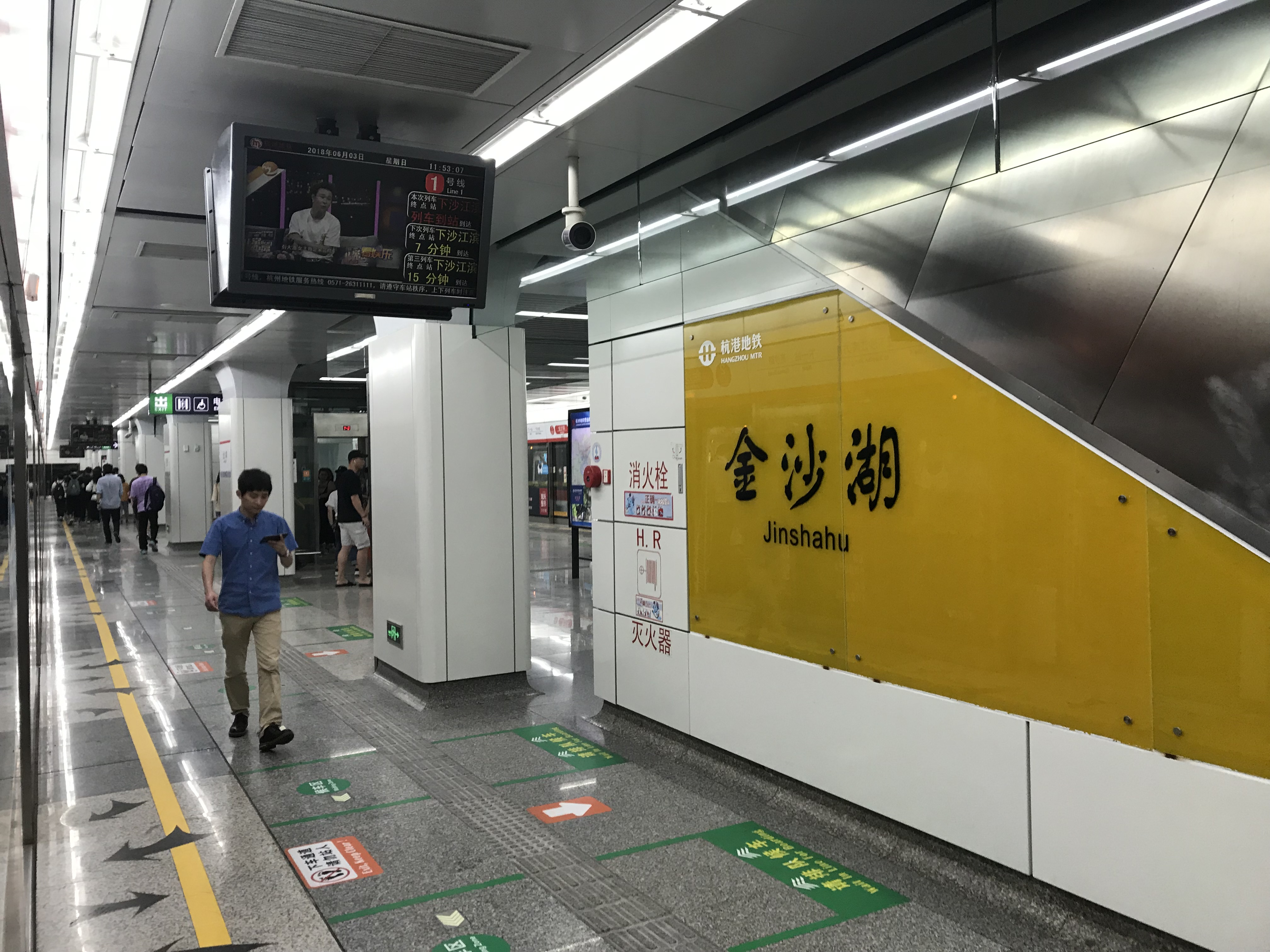 201806 Nameboard of Jinshahu Station